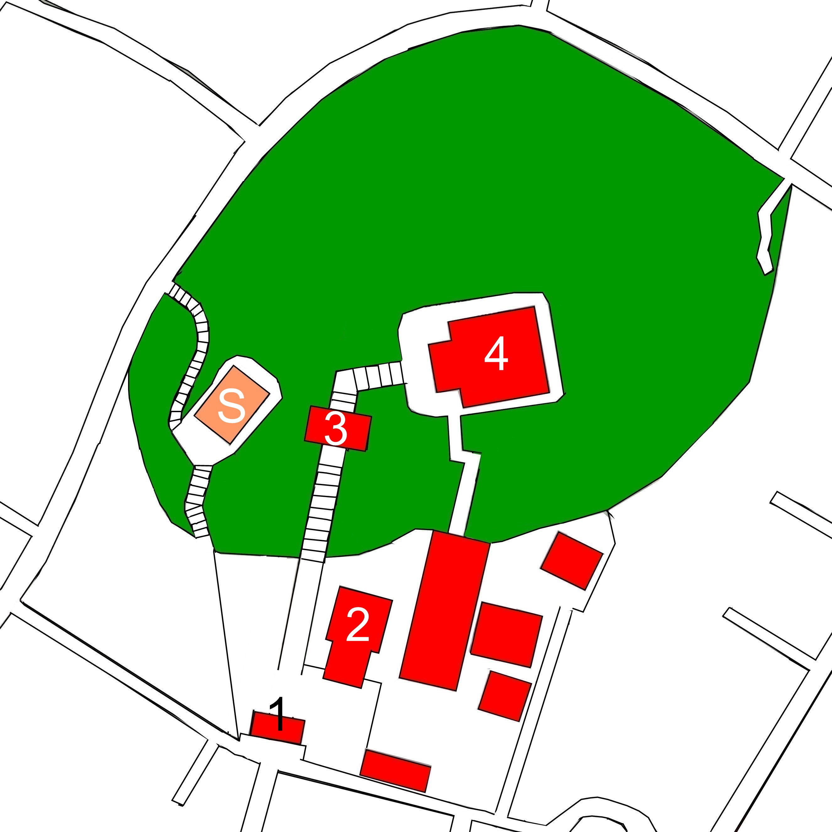 Layout of Shinsho-ji (Muroto) temple, Japan